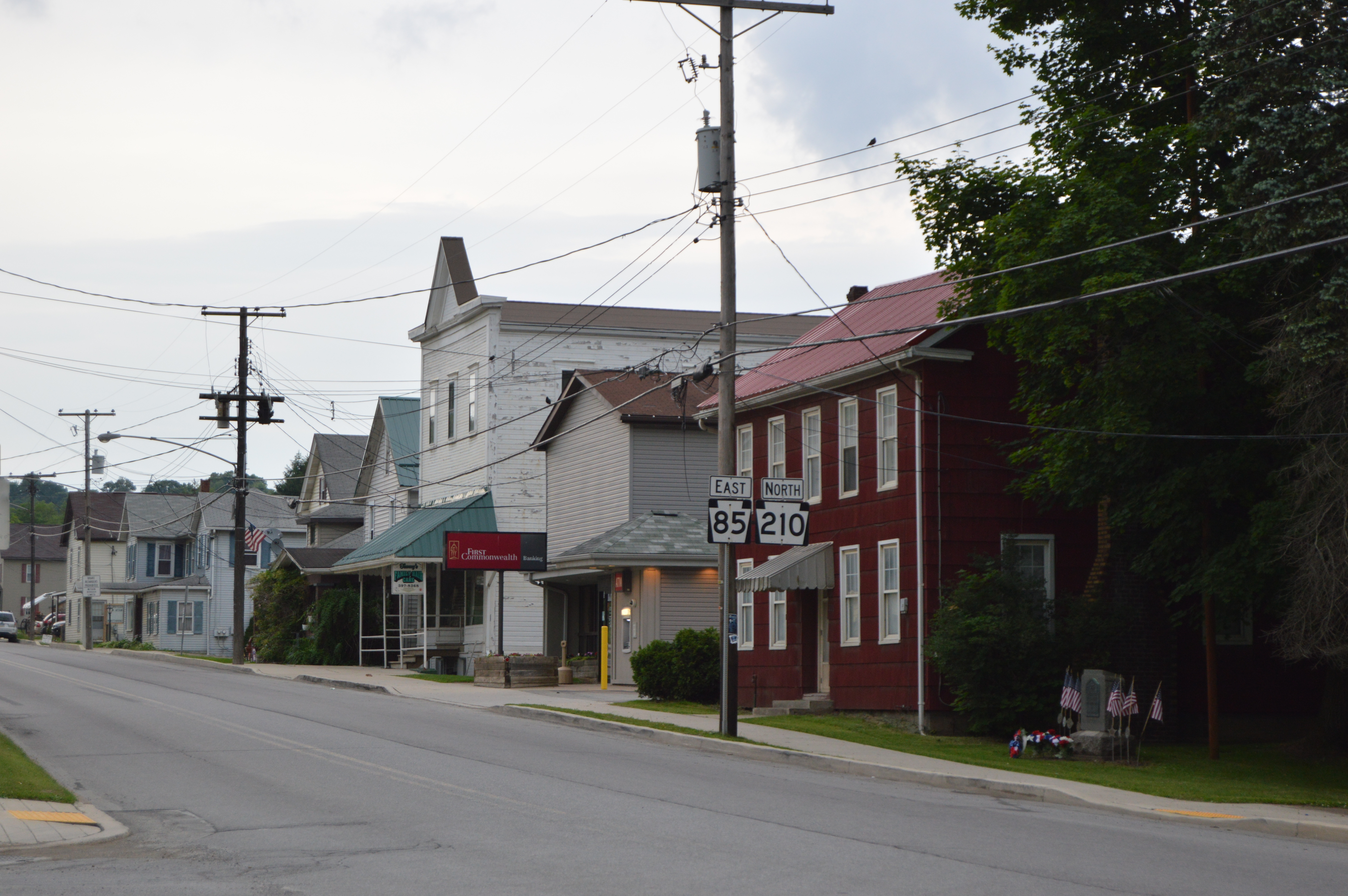 Buildings on the southeastern side of Main Street (Pennsylvania Routes 85/210) in the commercial district of Plumville, Pennsylvania, United States.